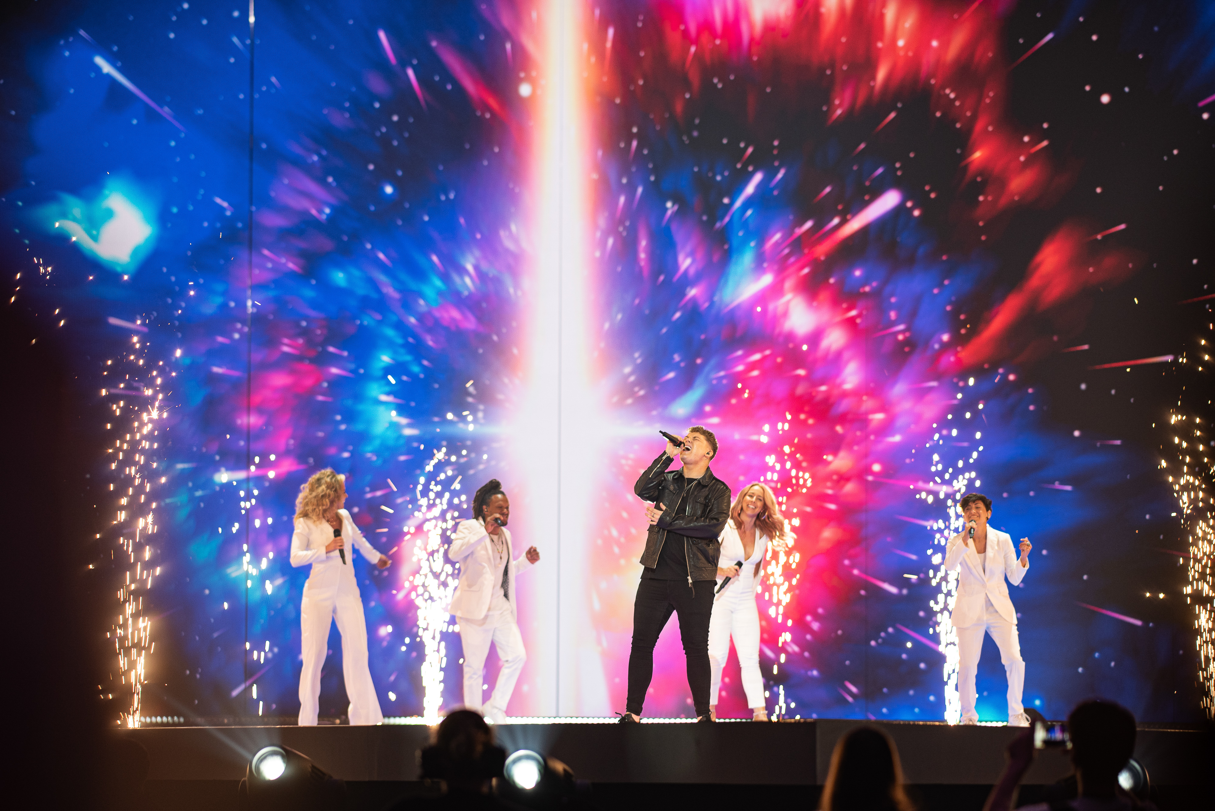 Michael Rice representing the United Kingdom with the song "Bigger than Us" during a rehearsal before the grand final of the Eurovision Song Contest 2019 in Tel-Aviv.